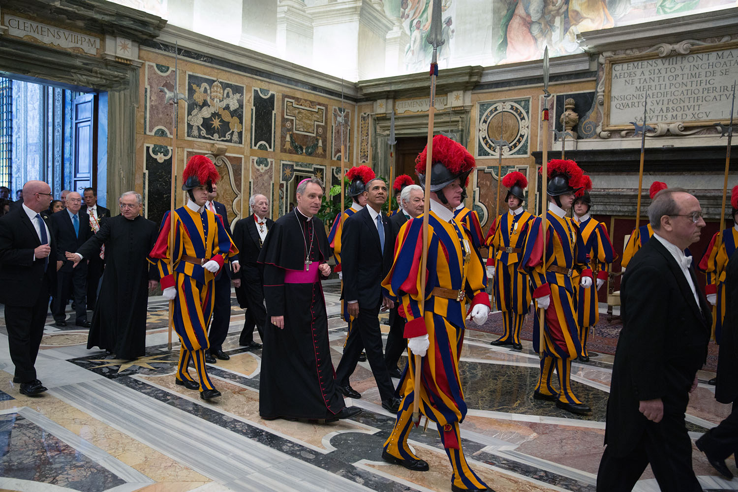 Archbishop Georg Ganswein, prefect of the Pontifical Household escorts President Obama to an audience with Pope Francis on 27 March 2014